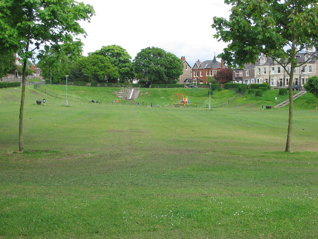 Acomb Green. One of the very few Greens left in York.